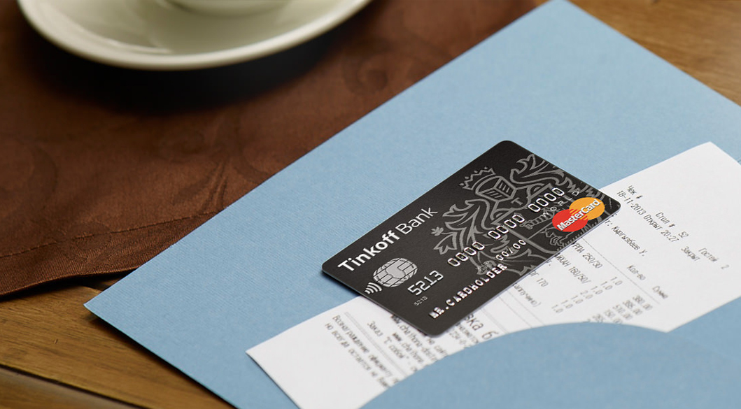 Tinkoff Bank debit card